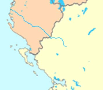 Aoos/Vjosë river map